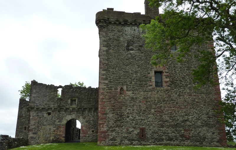 Balvaird Castle, Perth and Kinross, Scotland - from the north